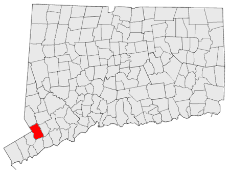 Locator map for Redding, Connecticut